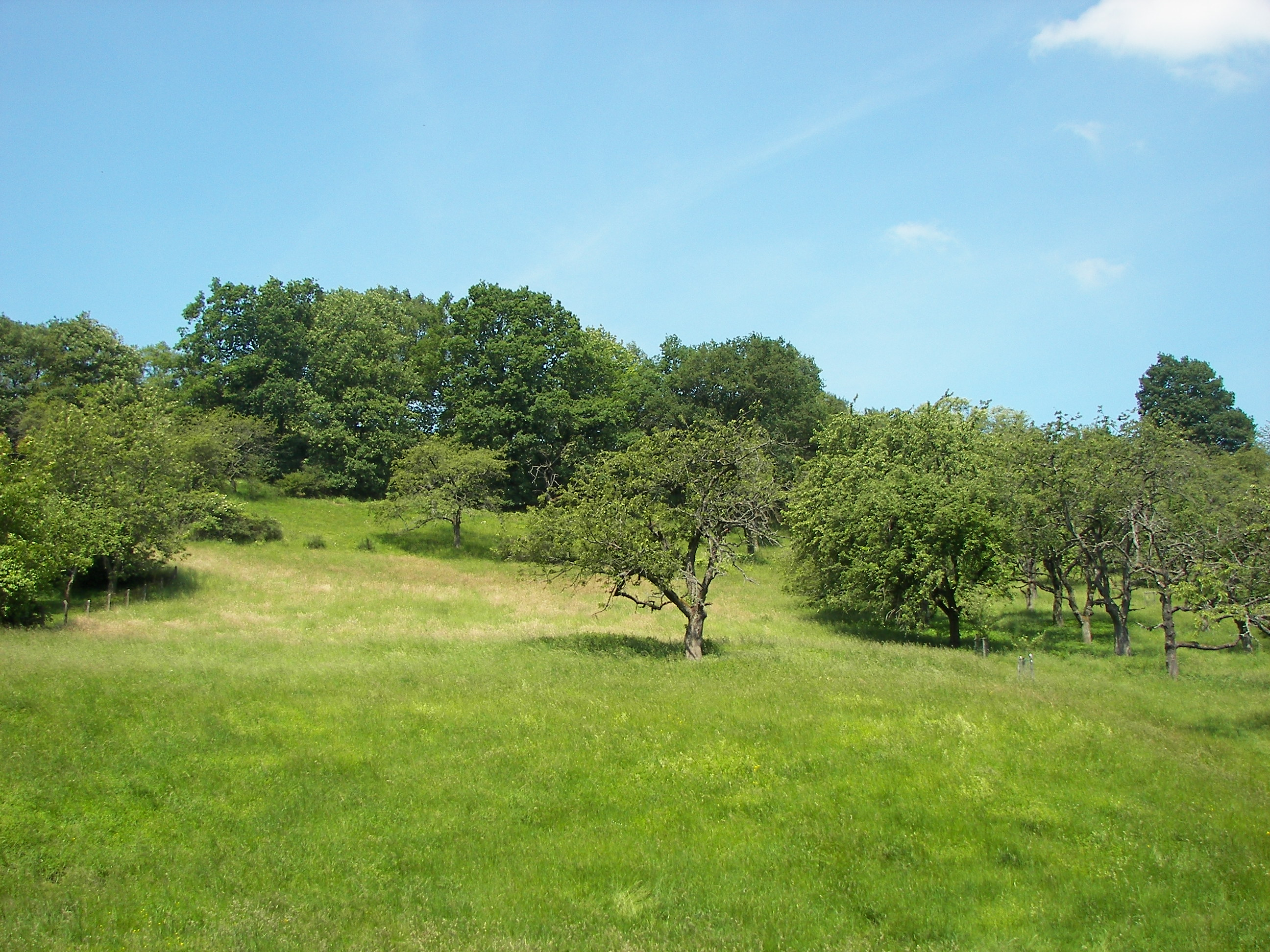 Heiliger Grund near Marburg-Ockershausen, Hesse, Germany